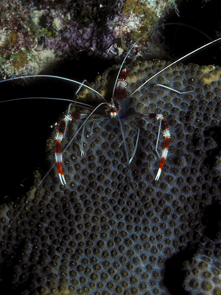 This banded coral shrimp (Stenopus hispidus) ventures out onto a sheet of star coral. Photographed at night, in front of the Sunset Waters Resort - f/11, 1/90, Kodachrome64.